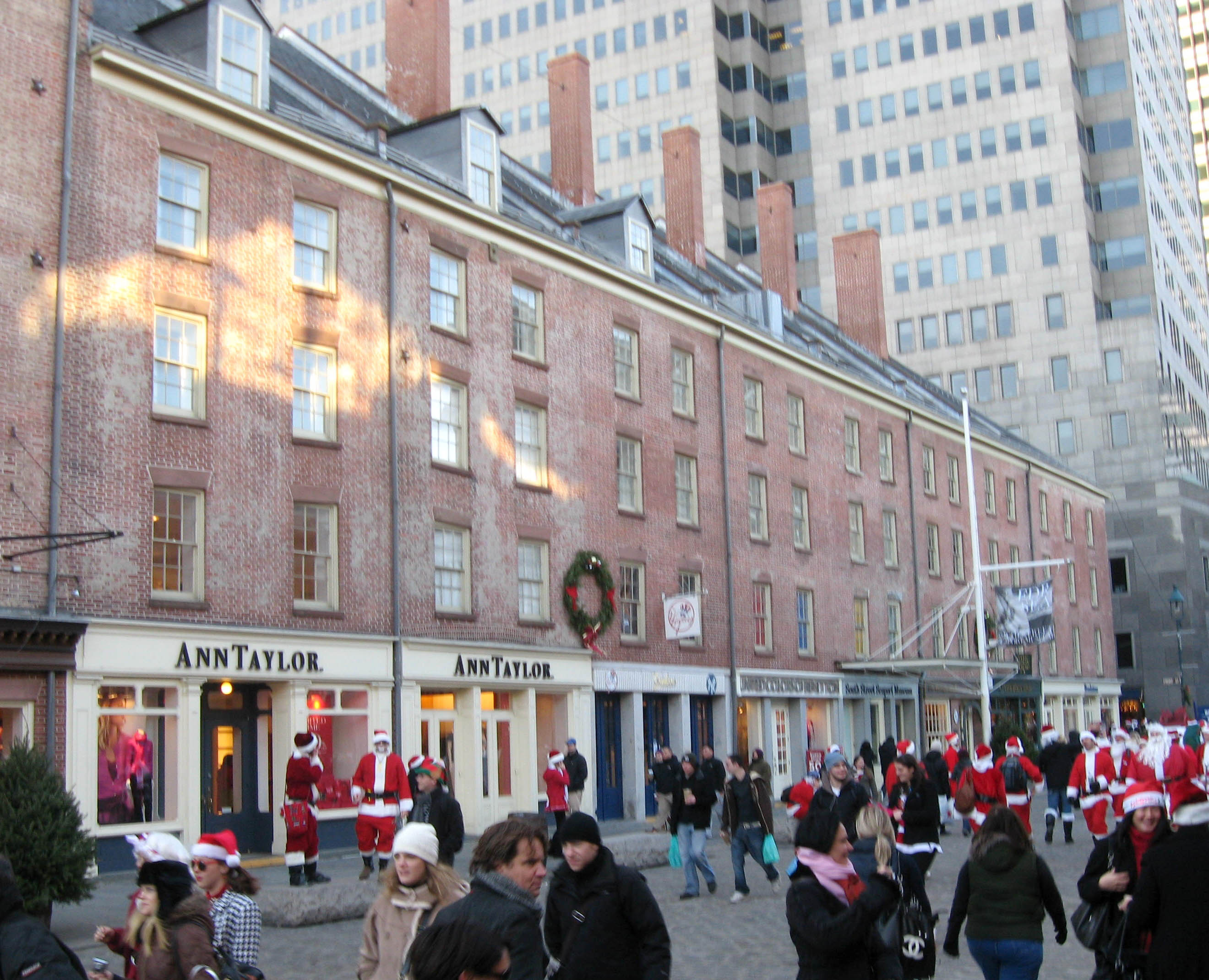 Looking west across and along Fulton Street (Manhattan) at Schermerhorn Row on a cloudy afternoon with many Santas.